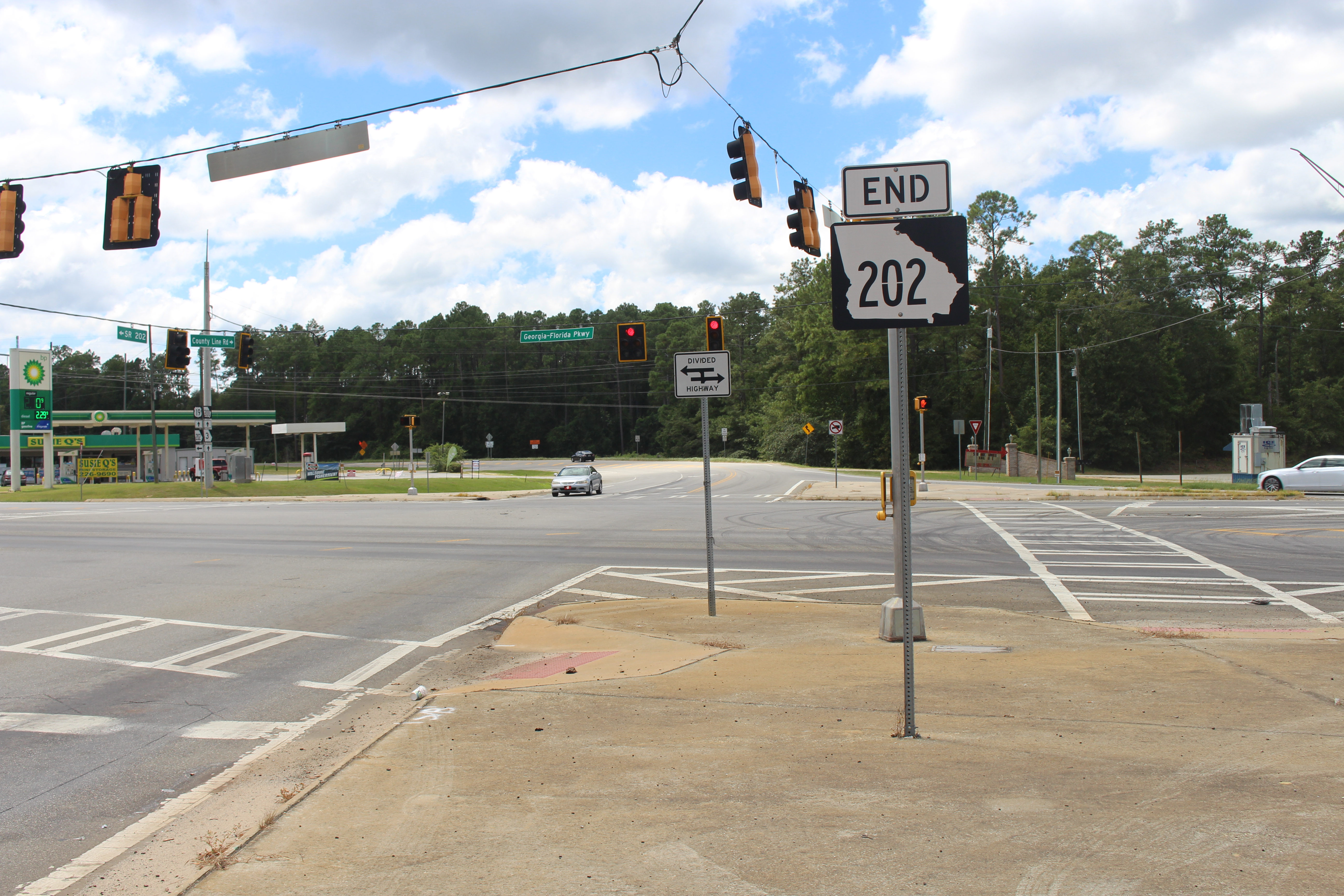 GA202 end, Thomas County, Georgia